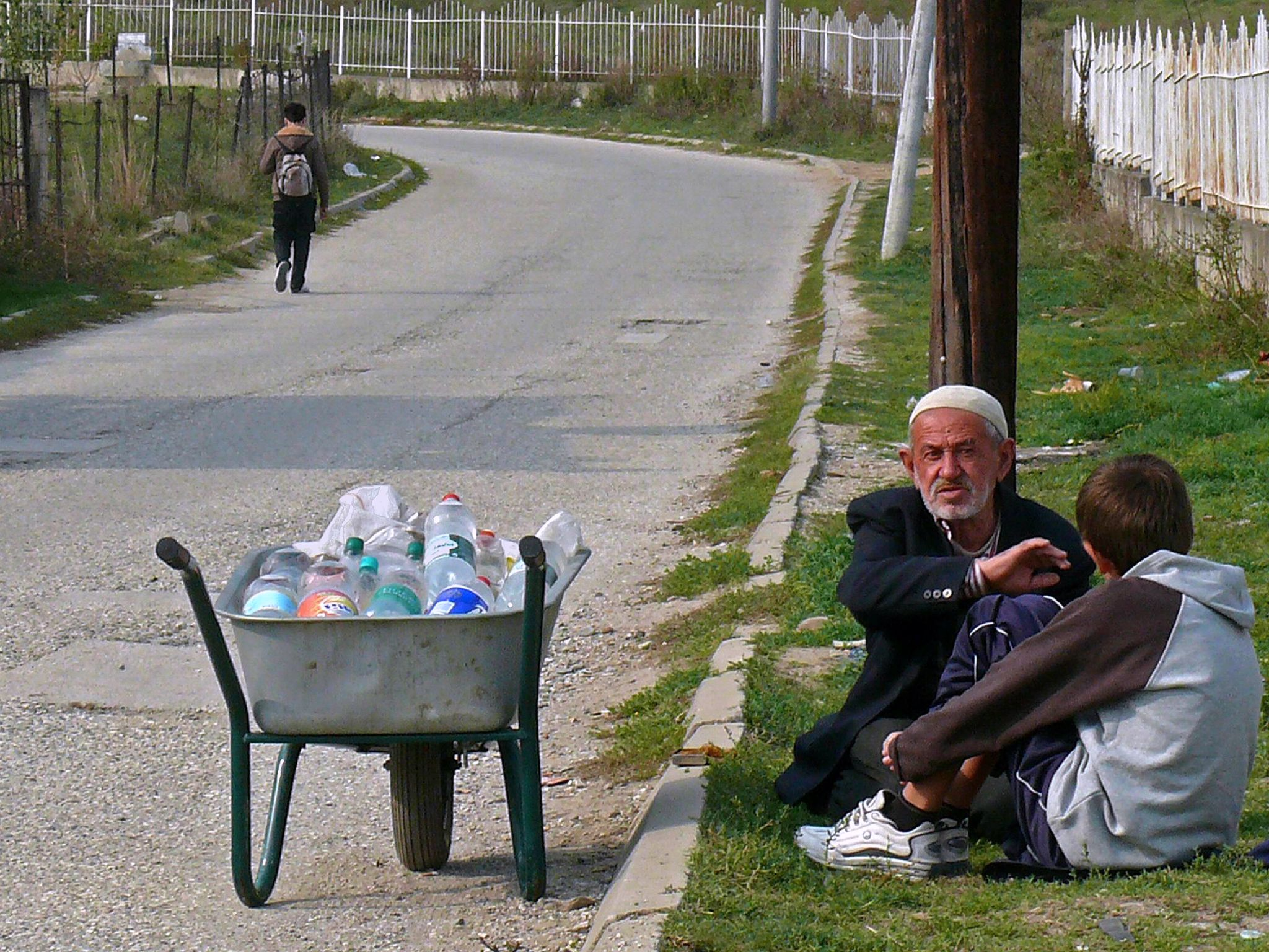 Ethnic Albanian water Seller, Tetovo